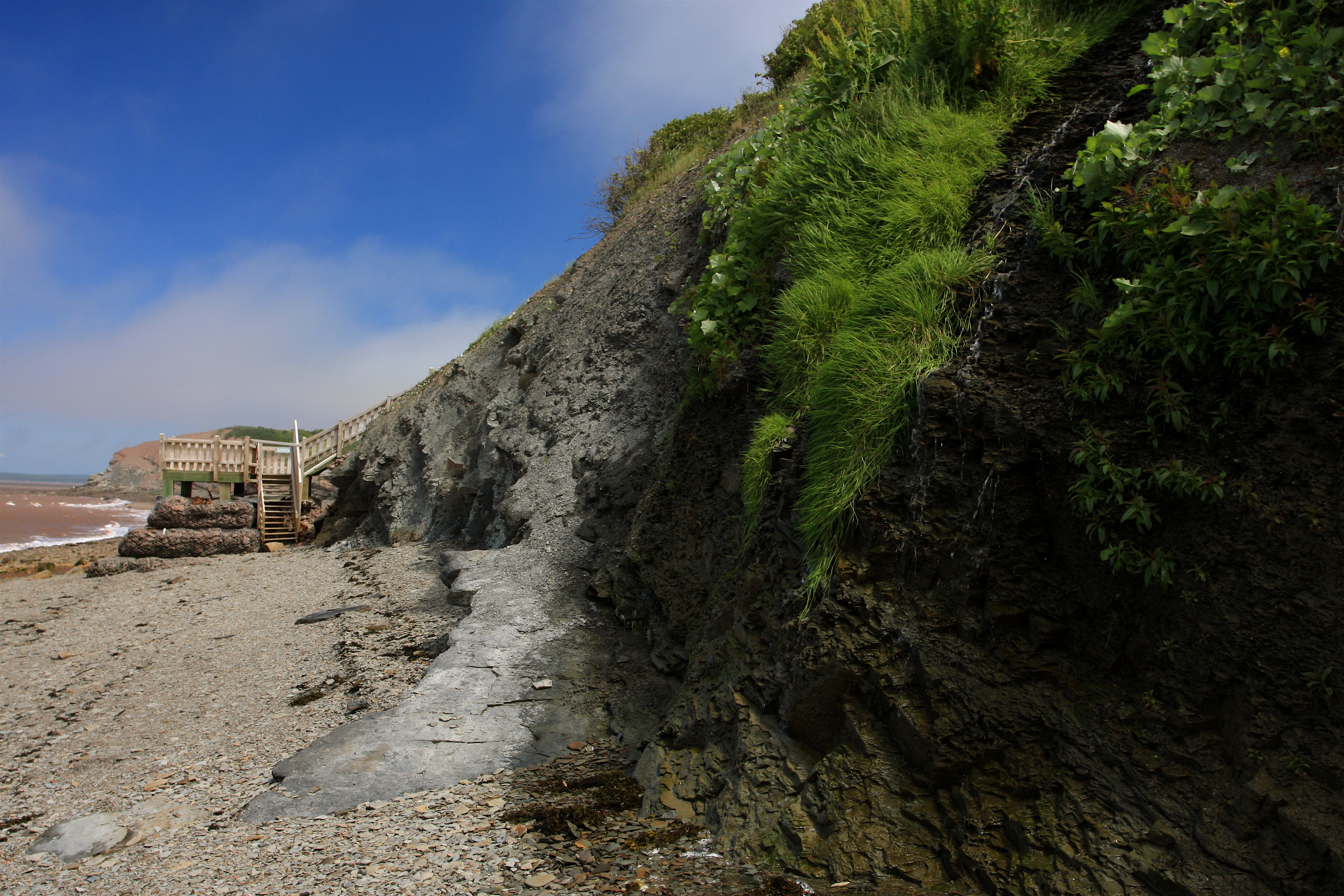 Cliff and beach immediately below the Joggins Fossil Centre at Joggins Fossil Cliffs World Heritage Site, Nova Scotia. The reddish headland in the background is Coal Mine Point (Hardscrabble Point).